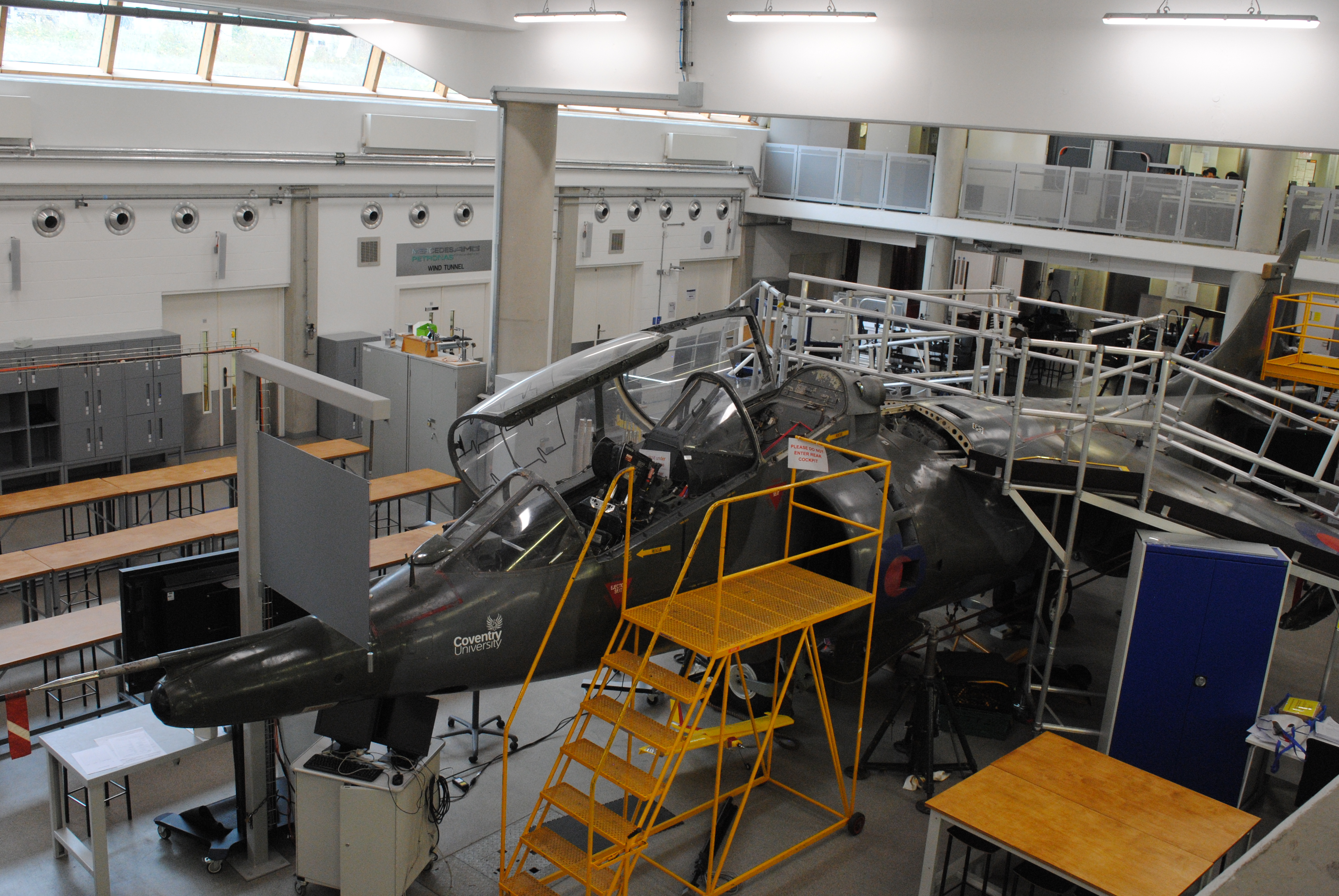 Harrier T4 training aircraft, formerly XW270, in the basement of Coventry University's Faculty of Engineering, Environment & Computing's main building on 27 September 2019